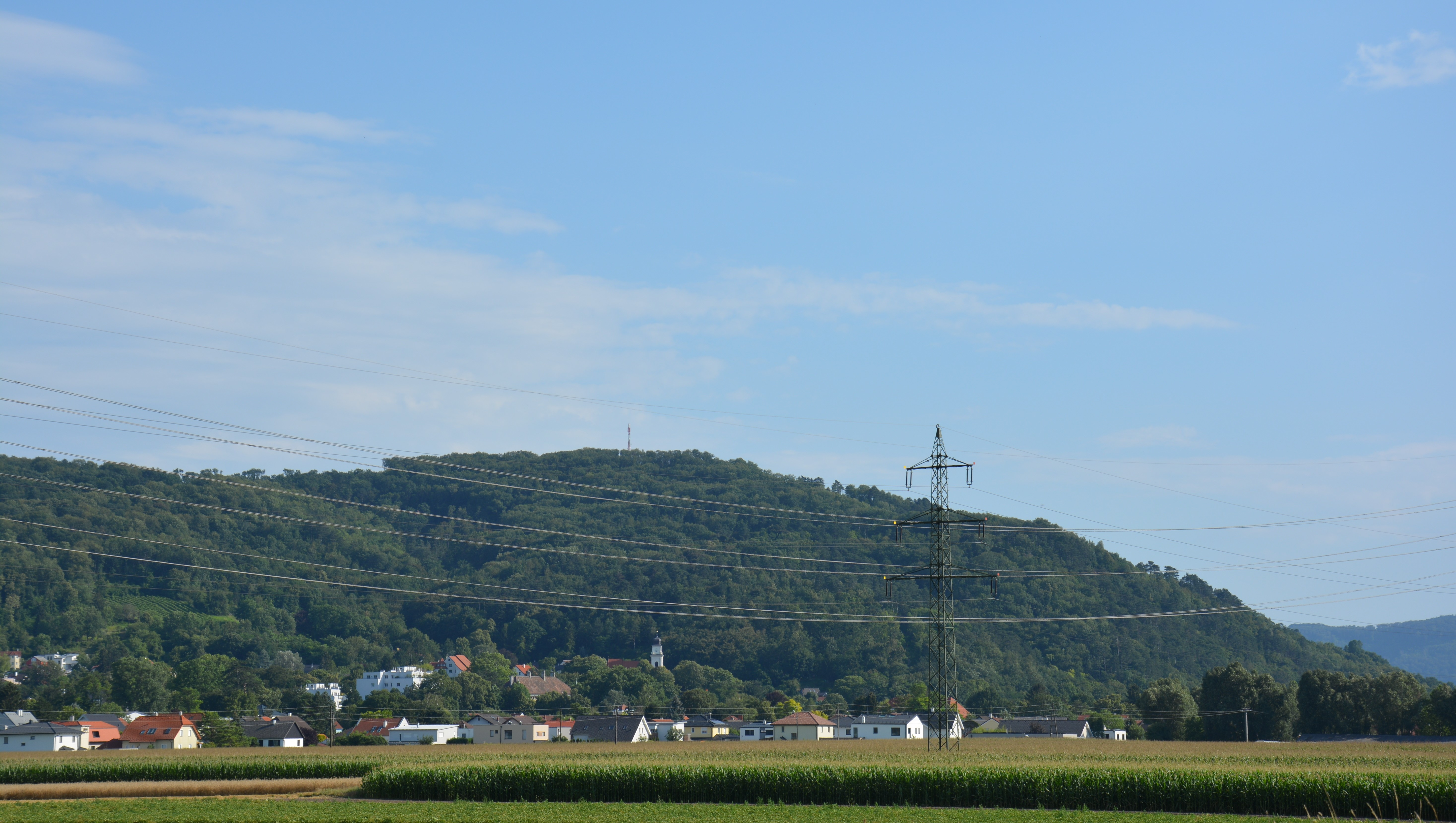 On this picture you can see the village Bisamberg which is in Lower Austria